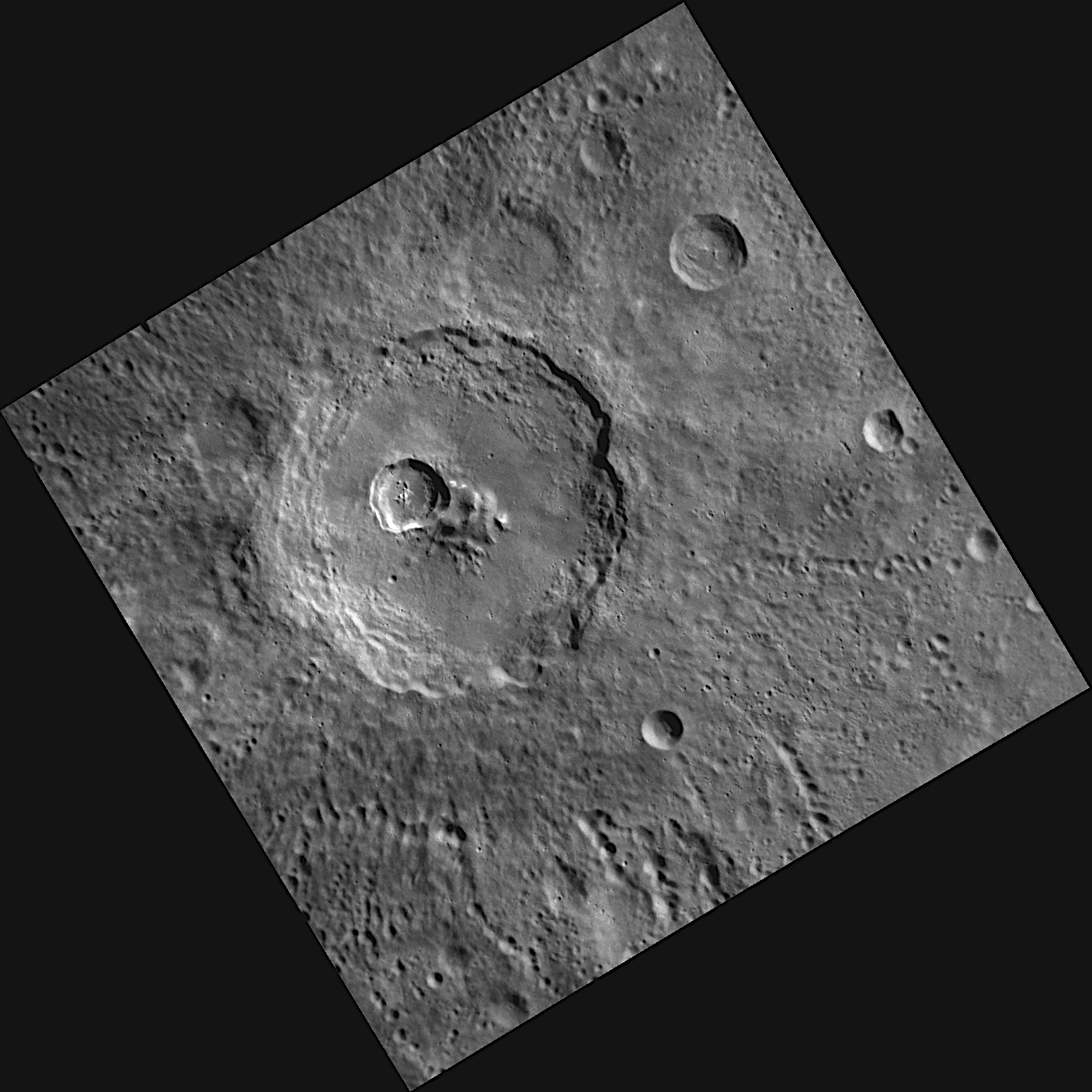 Date acquired: April 01, 2012 Image Mission Elapsed Time (MET): 241789276 Image ID: 1592870 Instrument: Narrow Angle Camera (NAC) of the Mercury Dual Imaging System (MDIS) Center Latitude: -36.80° Center Longitude: 270.2° E Resolution: 222 meters/pixel Scale: The diameter of Carducci is 108 kilometers (67 miles) Incidence Angle: 54.8° Emission Angle: 4.4° Phase Angle: 59.3° Of Interest: This image shows two craters that formed from impacts on Mercury's surface at a very similar location. The largest crater in this image is named Carducci, in honor of the Italian poet Giosue Carducci (1835-1907). The smaller crater that is located near the center of Carducci has a diameter of approximately 20 kilometers. We can deduce that the smaller crater is younger than Carducci because the impact that formed the smaller crater destroyed a portion of Carducci's central peaks and a large impact crater like Carducci would have obliterated any evidence of the smaller crater if the smaller crater had existed previously. Simple superposition relationships like this are being applied all over Mercury's surface, to determine the relative age and timing of events in Mercury's past. This image was acquired as part of MDIS's high-resolution albedo base map. The best images for discerning variations in albedo, or brightness, on the surface are acquired when the Sun is overhead, so these images typically are taken with low incidence angles. The albedo base map is a major mapping campaign in MESSENGER's extended mission and will cover Mercury's surface at an average resolution of 200 meters/pixel.